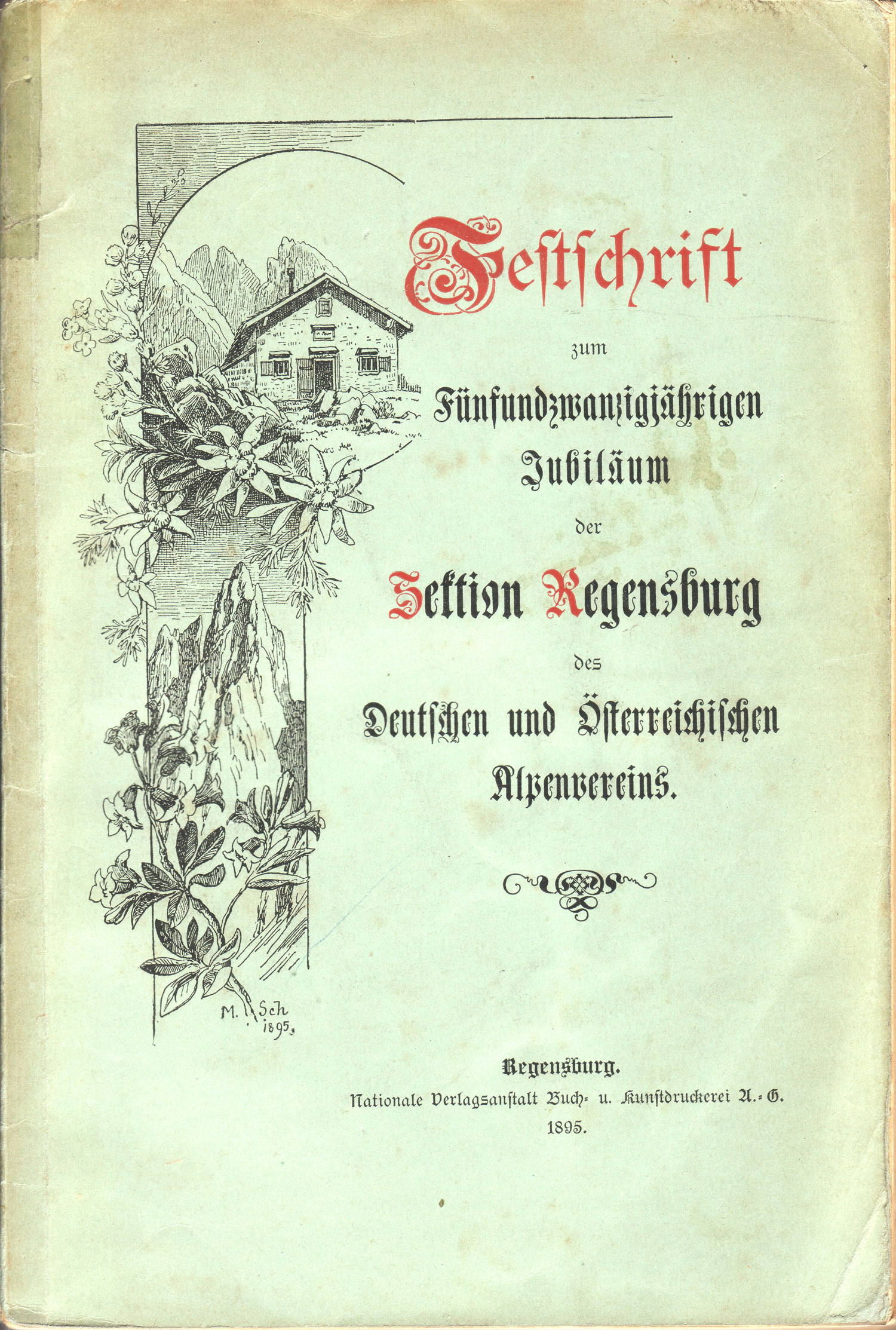 The Regensburger Hütte-Rifugio Firenze around 1900